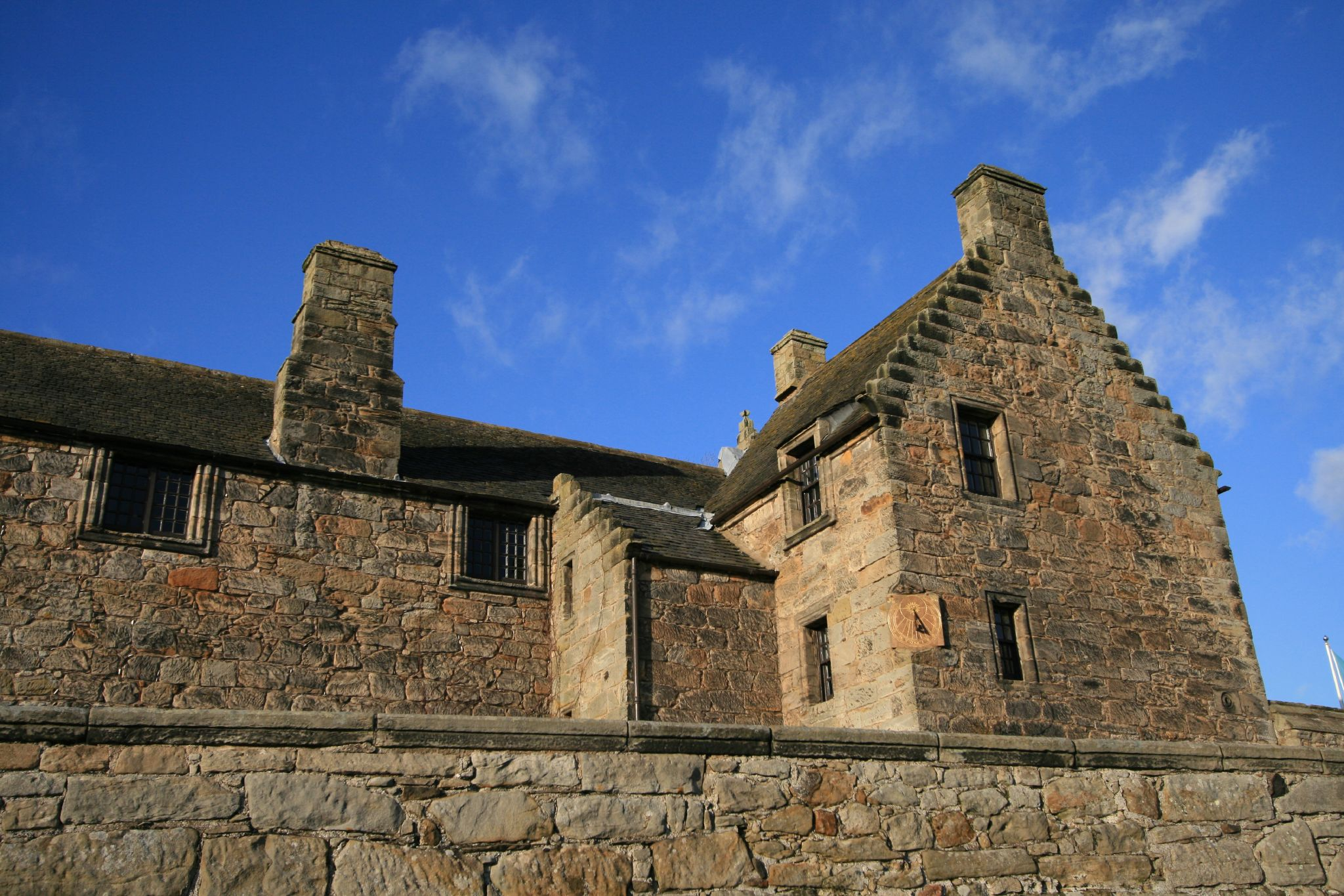 Most recent part of Aberdour Castle with large sundial shown. It was built in time of William Morton (7th Earl) who died in 1648.